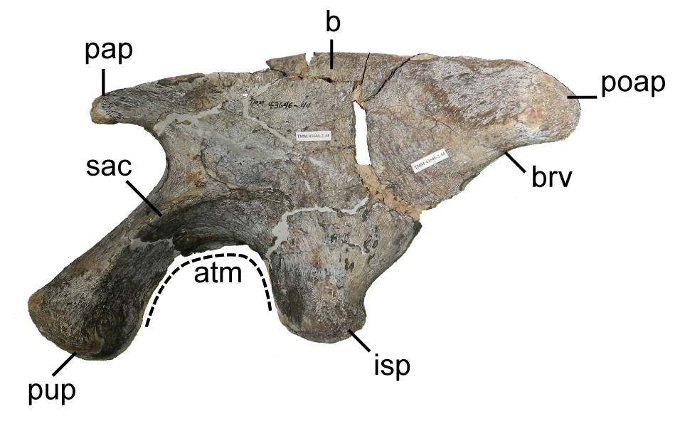 Left holotype ilium of Sarahsaurus aurifontanalis in lateral view. Abbreviations: acetabular margin (atm), blade (b), brevis fossa (brv), ischiac peduncle (isp), preacetabular process (pap), postacetabular process (poap), pubic peduncle (pup), supraacetabular crest (sac).